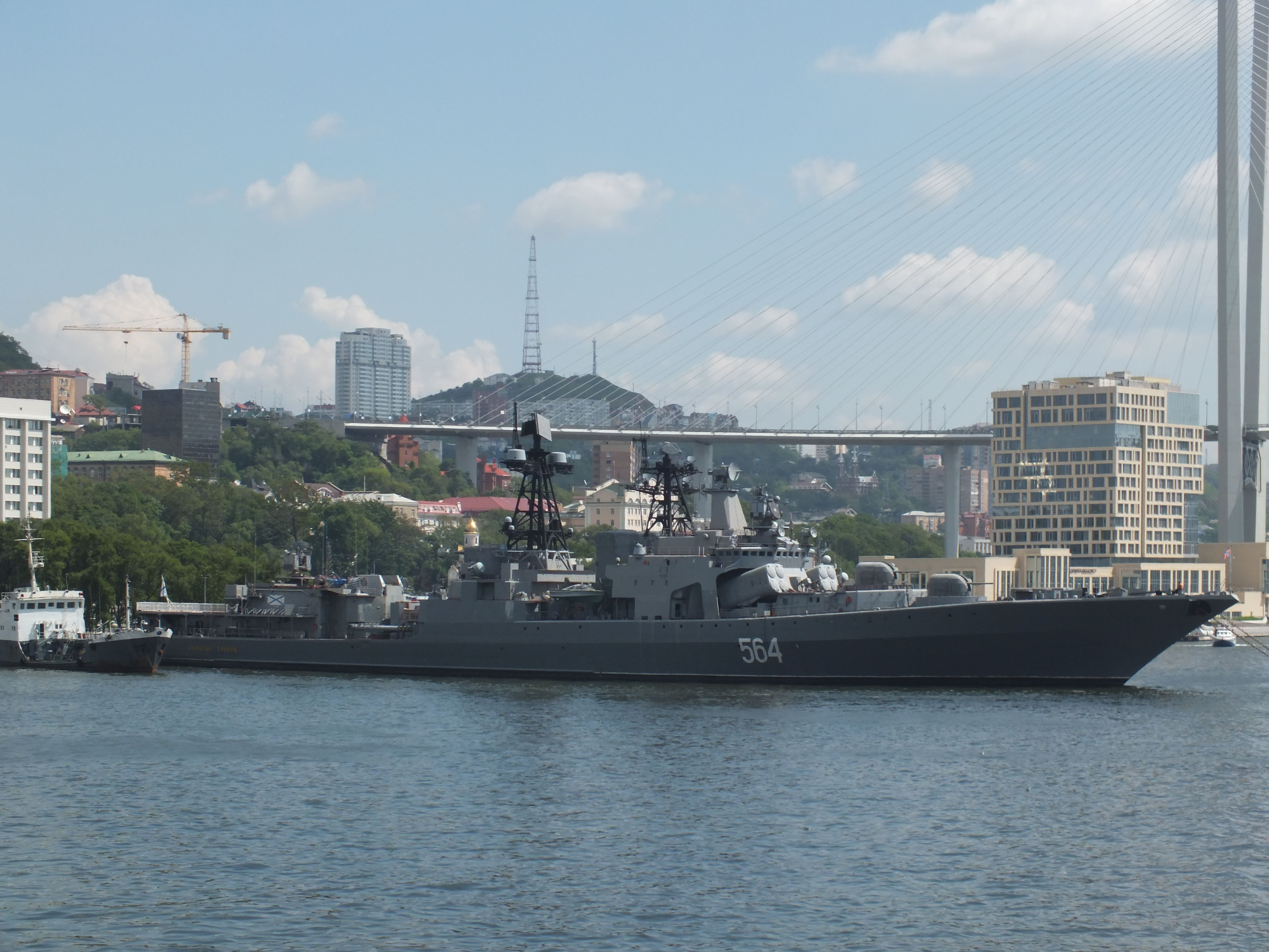 Admiral Tributs (ship, 1983)